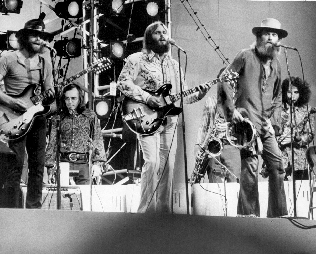 Photo of the Beach Boys performing in Central Park for an ABC Television special "Good Vibrations from Central Park". The item has no copyright markings on it as can be seen in the links above.